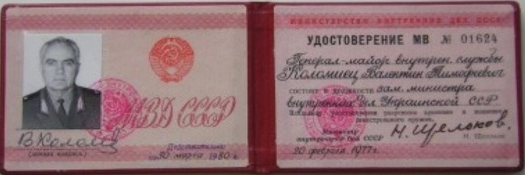 Identity cards of the Deputy Minister of internal Affairs of the Ukrainian SSR (USSR)